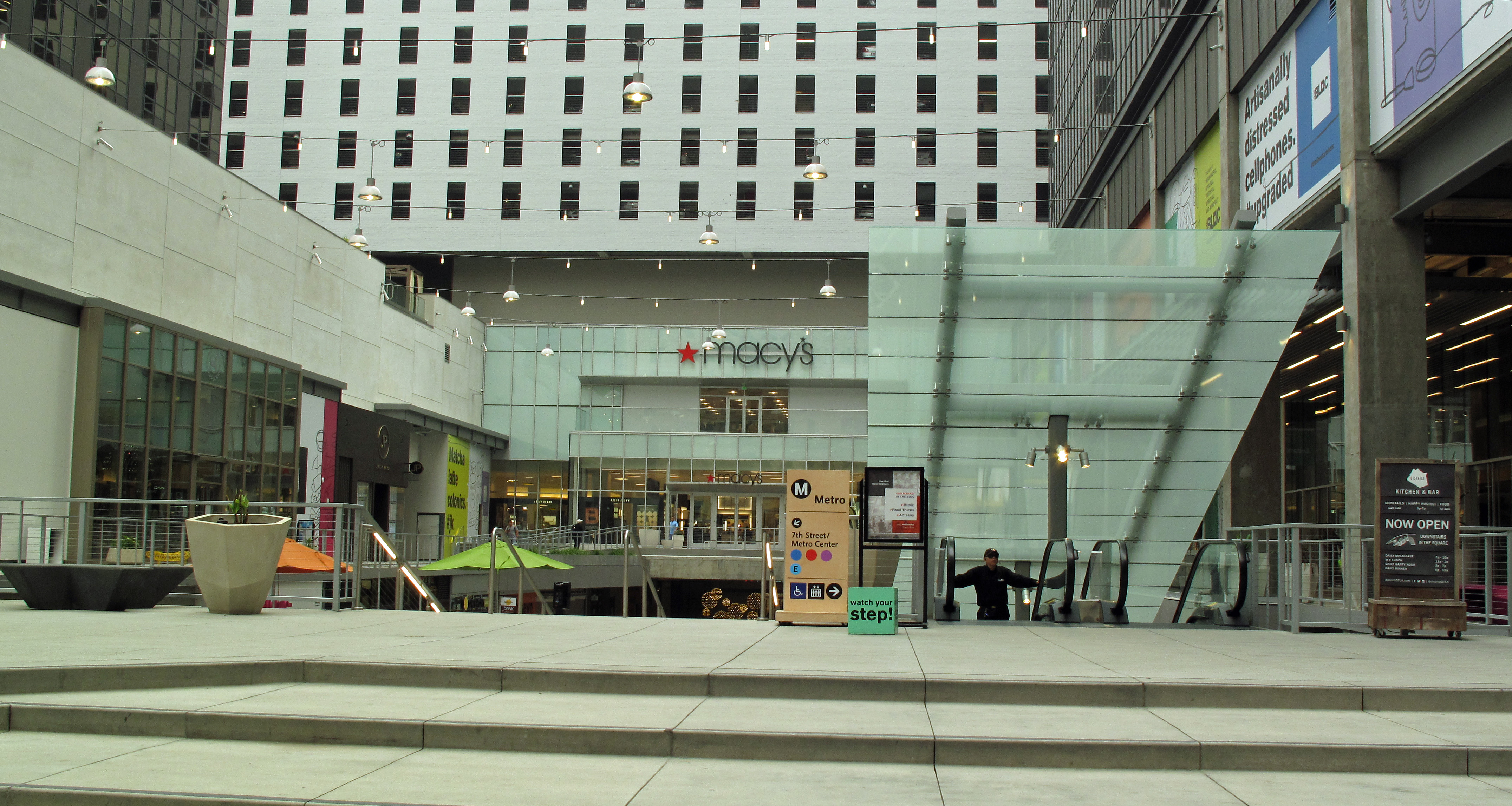 The Bloc shopping mall with Macy's and an entrance to the 7th Street/Metro subway stop.